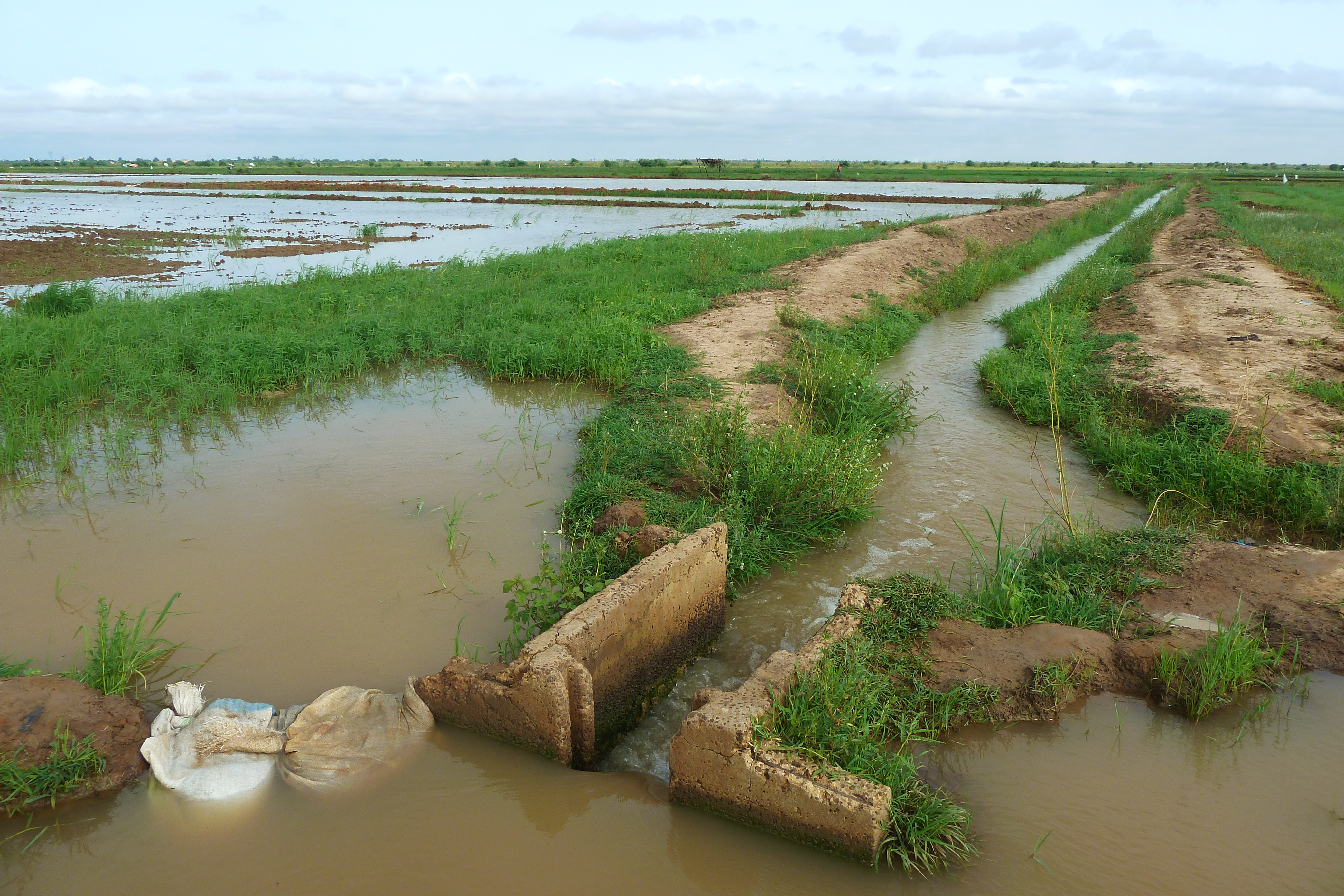 Irrigated rice cultivation in the Senegal River Valley